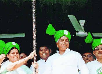 Subhash yadav is lalu yadav favourite brother in law